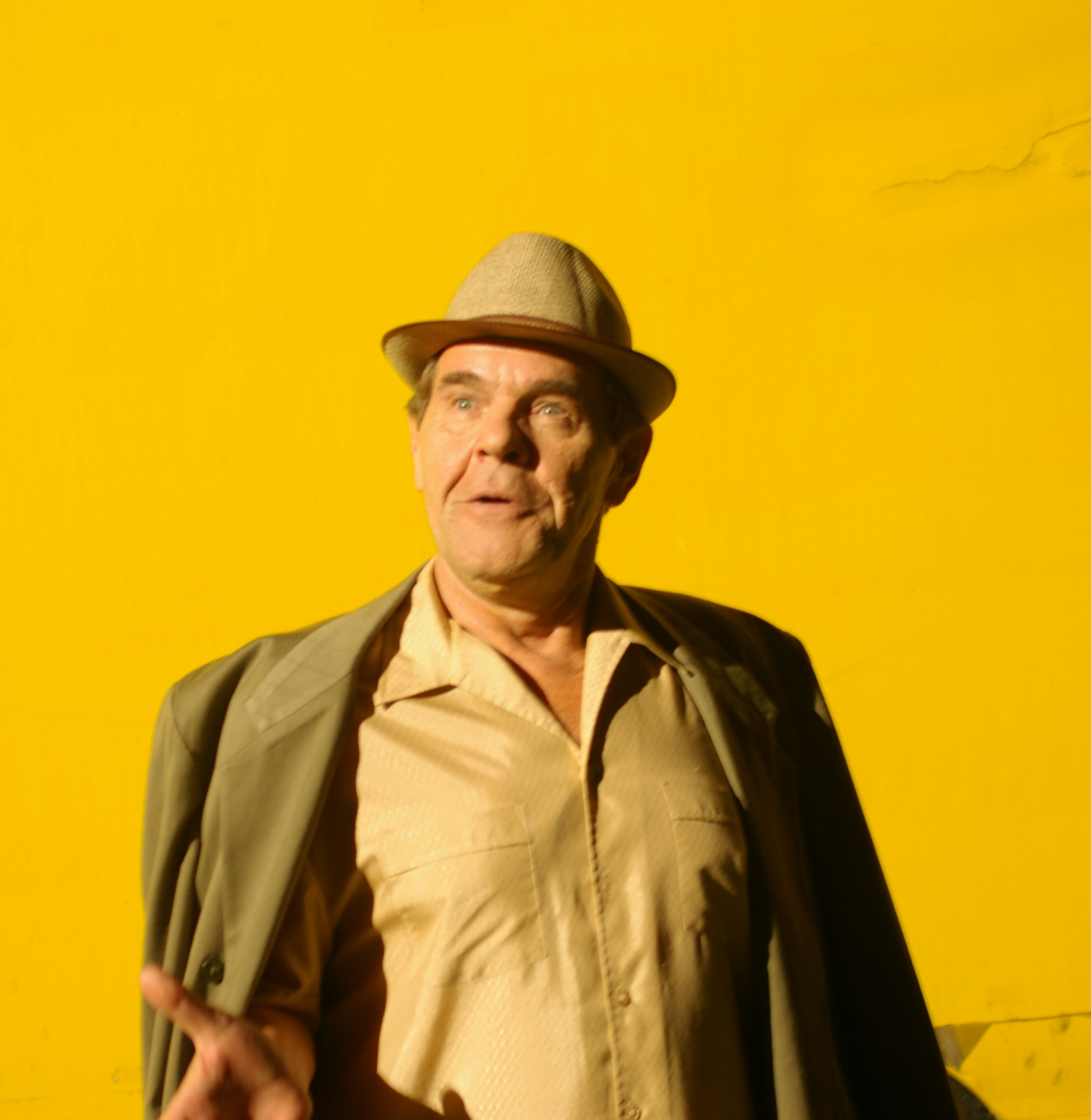 Filmmaking of Russian file “Любовь. Олимпиада. Рок-н-Ролл”.